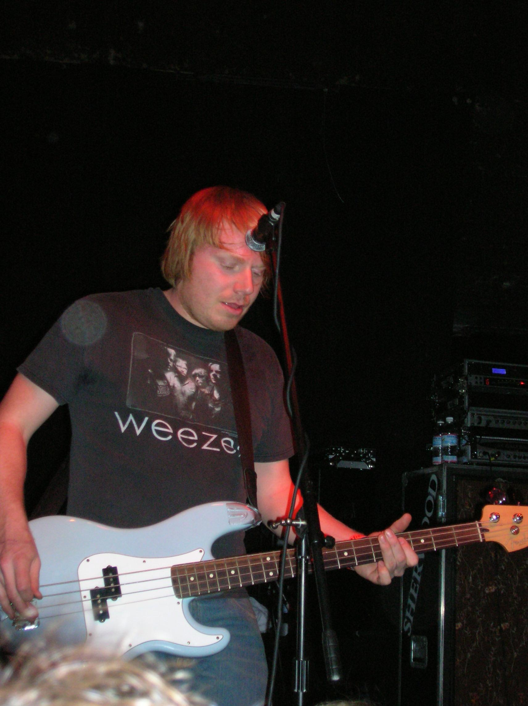 Nate Henry performing with Sherwood in San Diego, CA in February 2006.